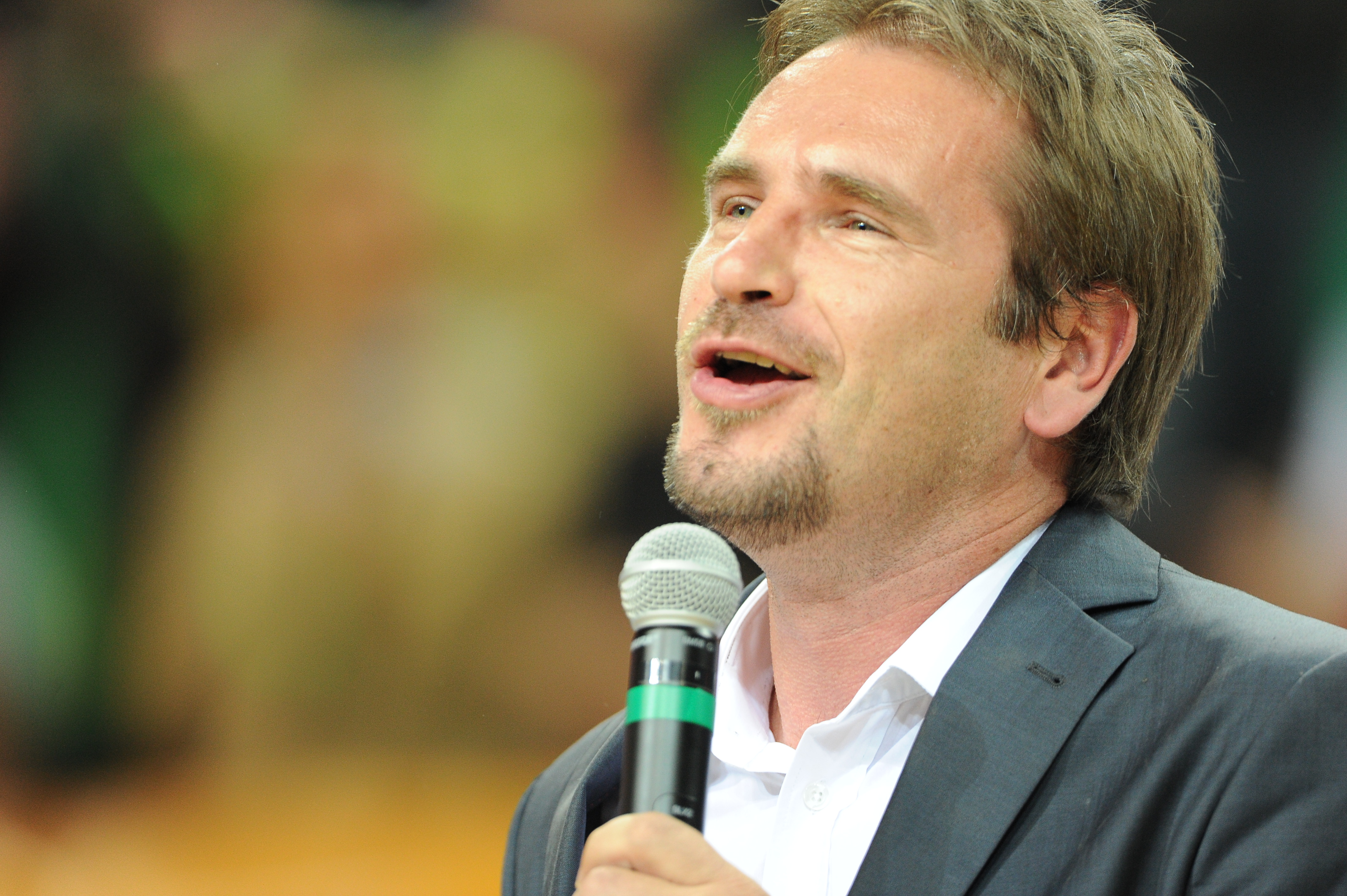 Marijonas Mikutavičius, EuroBasket 2011 athem author, singing during the time-out.